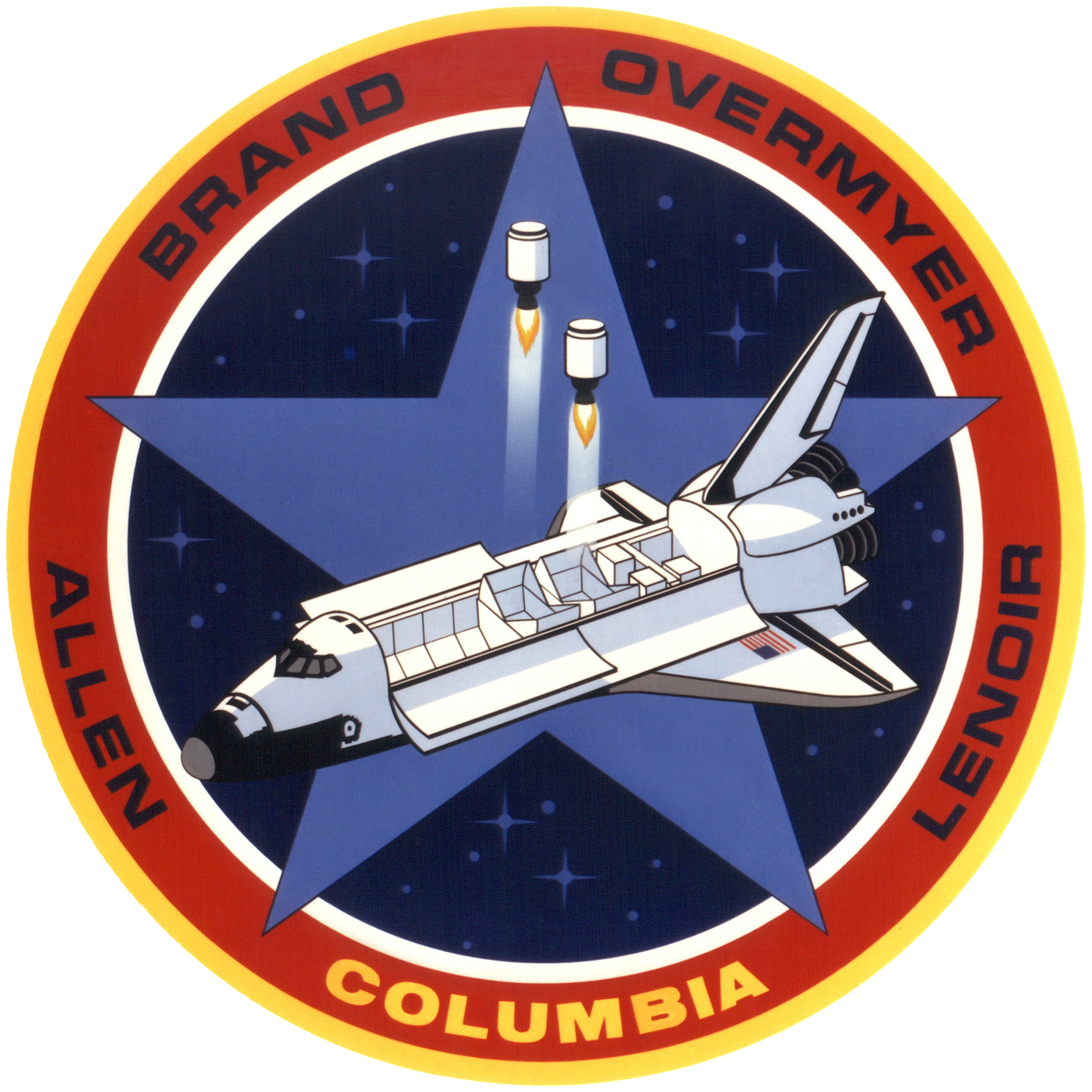 STS-5 mission insignia